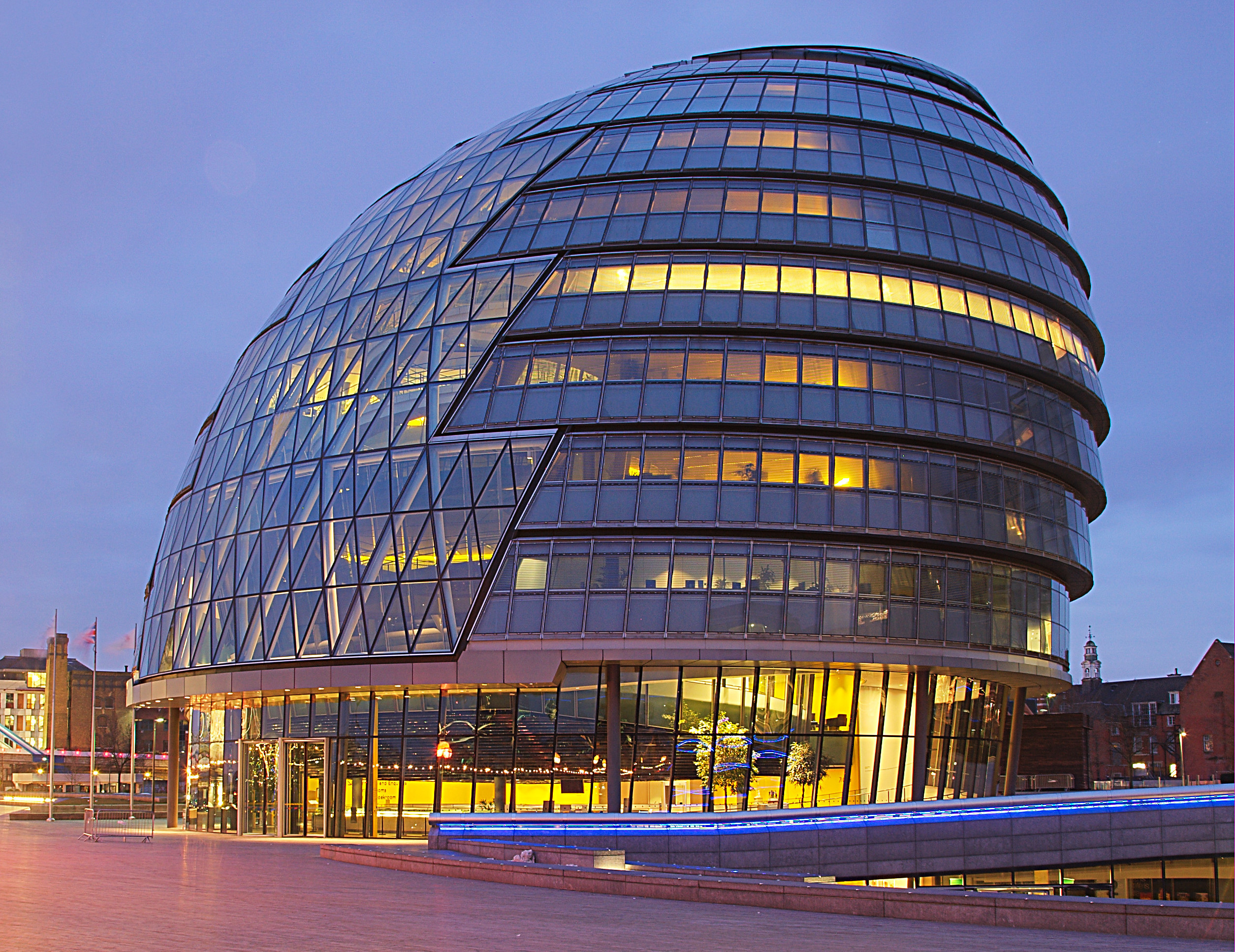 City hall in London at dawn